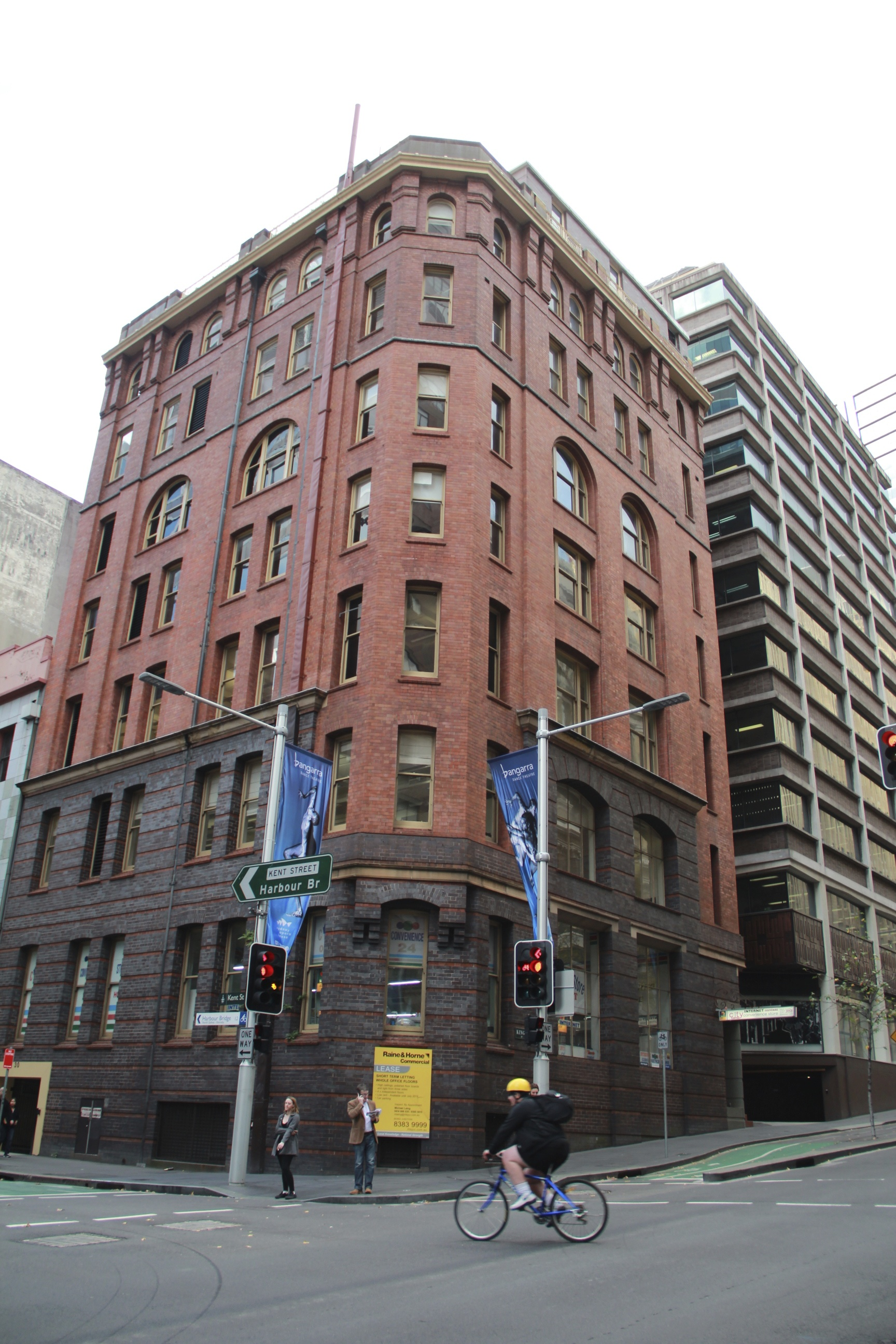 Building on Kent Street, Sydney